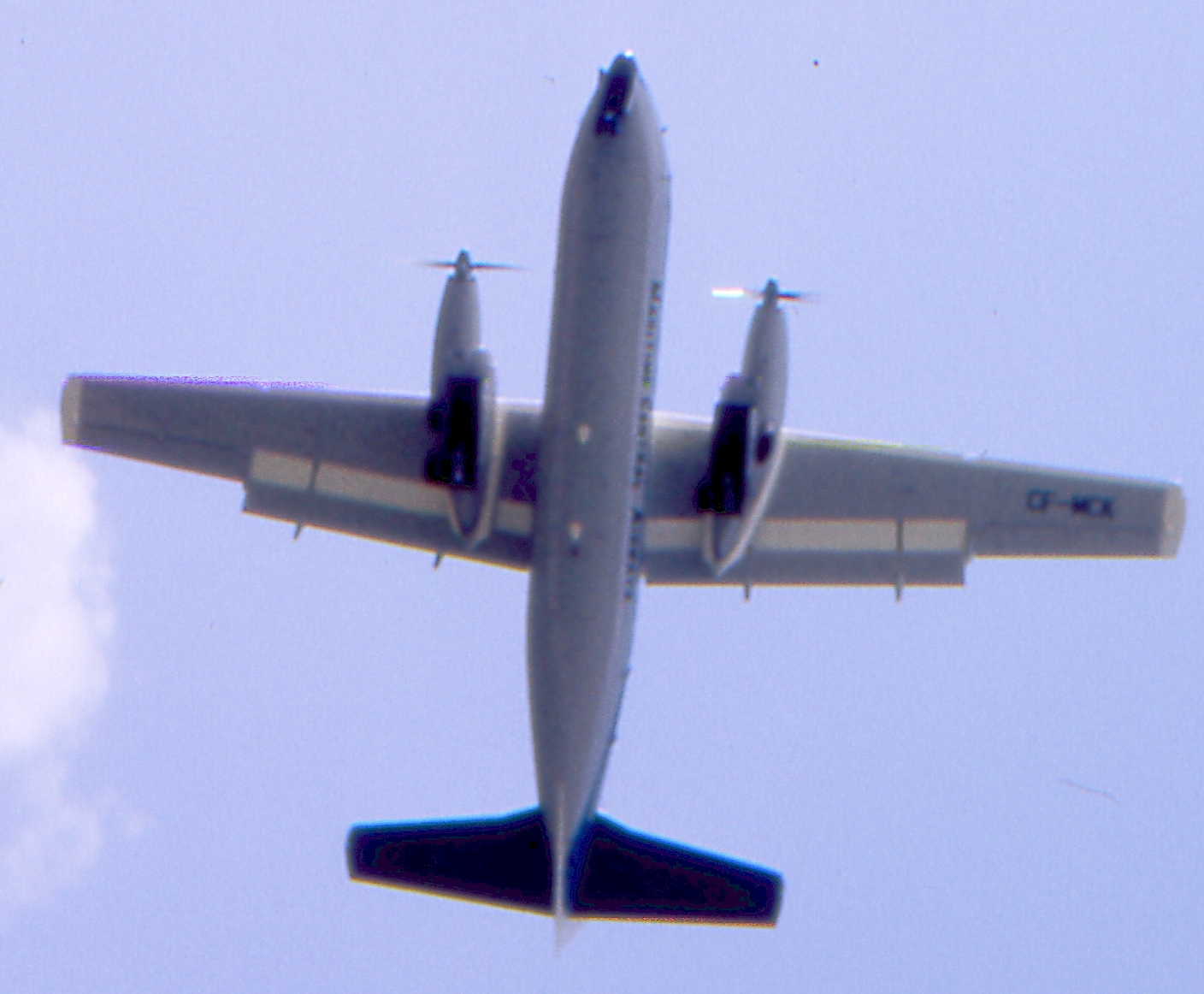 Dart Herald Srs 202, CF-MCK at the SBAC show Farnborough 1962. It was ordered by Maritime Central Airlines, who went out of business before delivery and this aircraft was eventually registered as Srs 211 G-ASSK and leased to Sadia SA Transportes Aereo as PP_ASU.